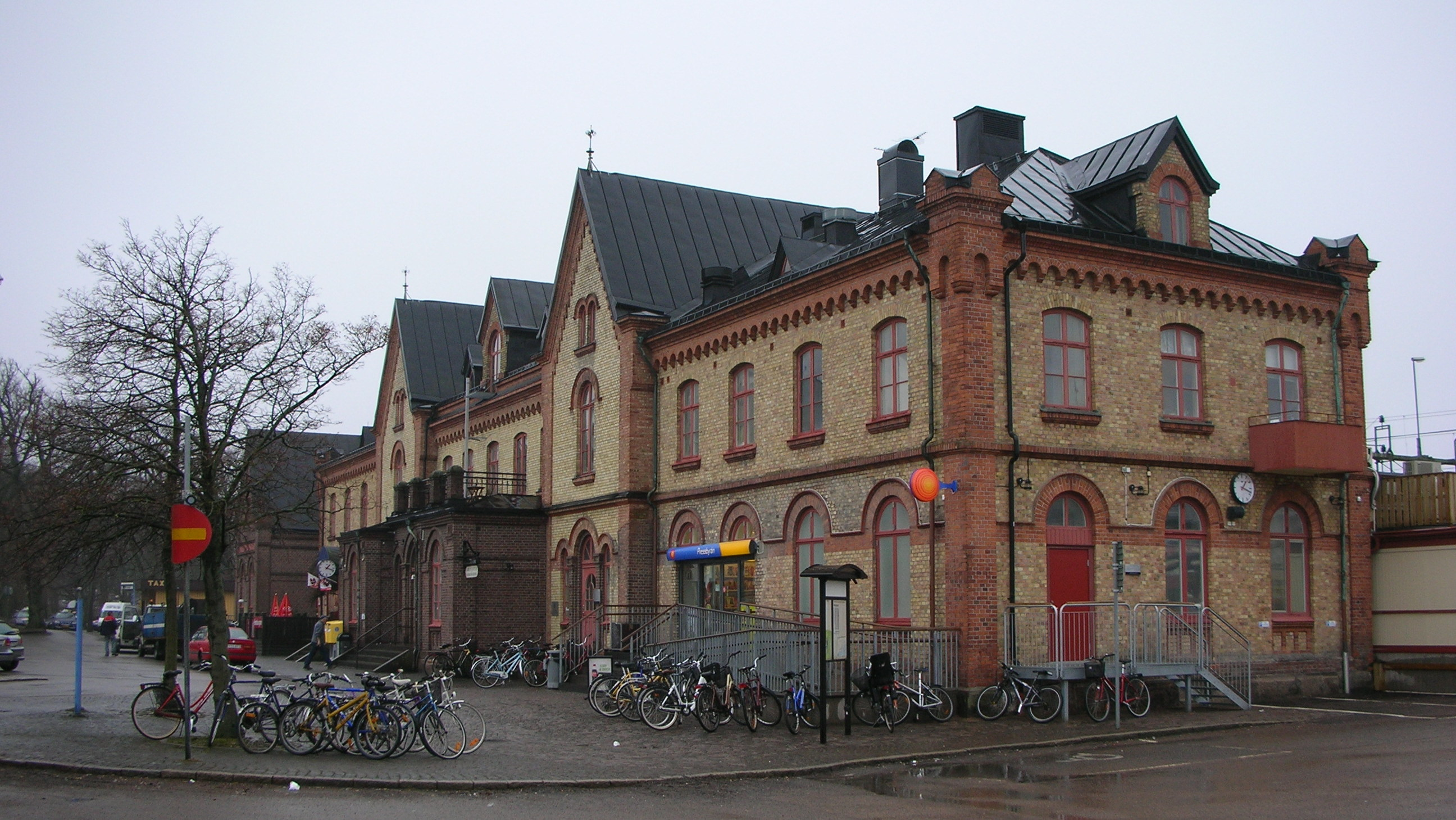 Varberg Railway Station.